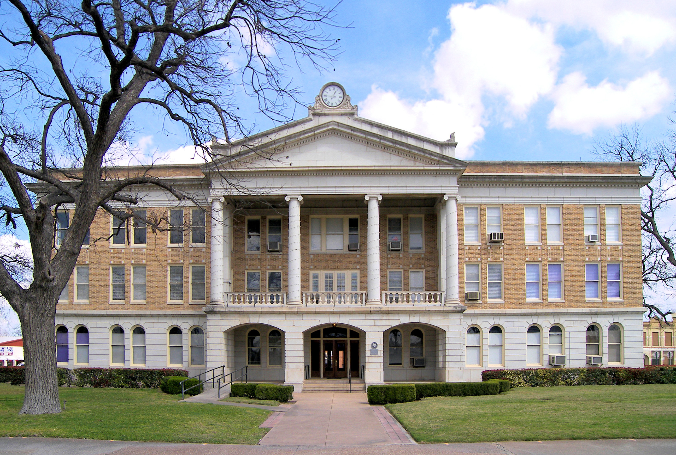 The Uvalde County, Texas Courthouse located in Uvalde, Texas, United States. The Neoclassical style structure was built in 1928 and is the fifth building to serve as the Uvalde County Courthouse. The building was designated a Recorded Texas Historic Landmark in 1983.